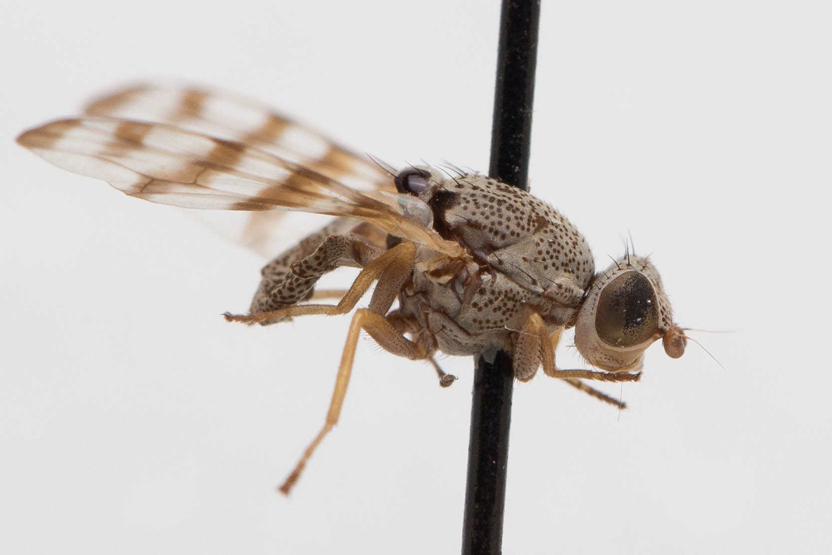 Side view of this fly